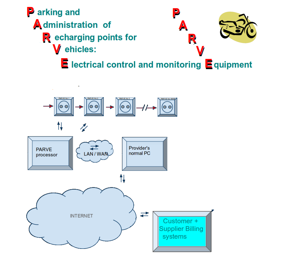 PARVE Park and recharge system overview